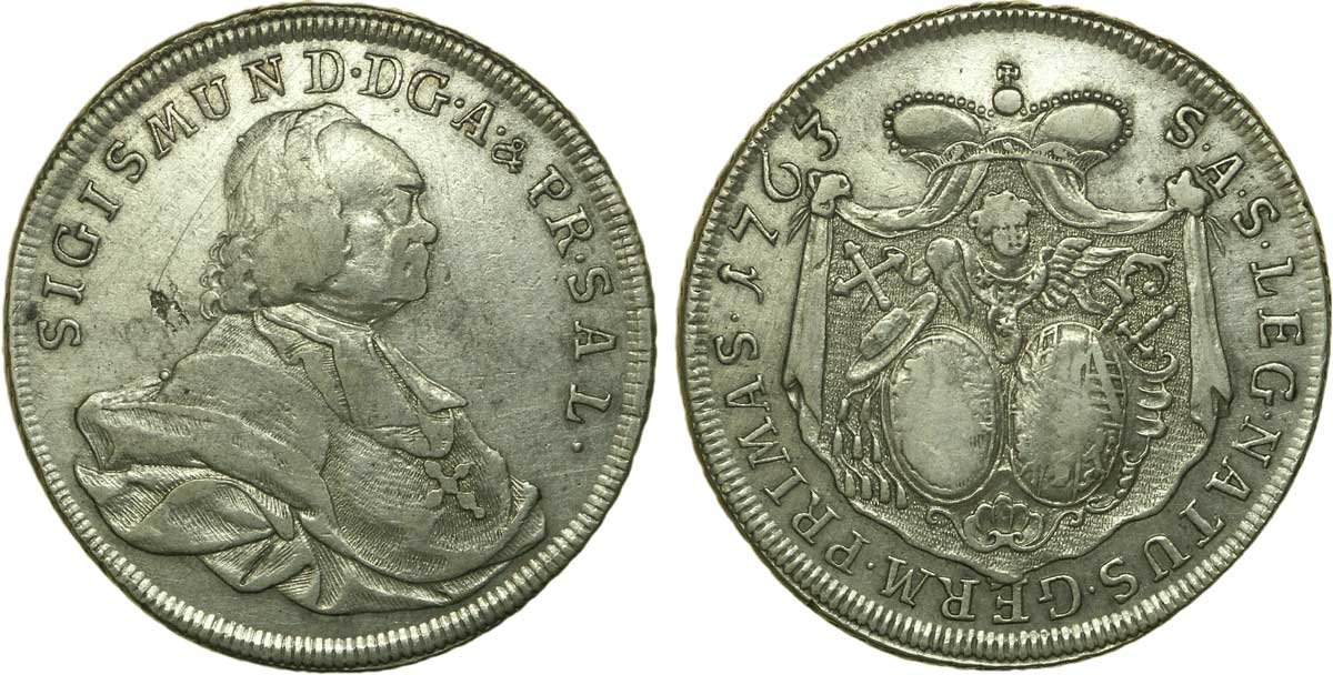 Thaler de l'Archeveché de Salzbourg à l'effigie de Sigismond III de Schrattenbach, 1763